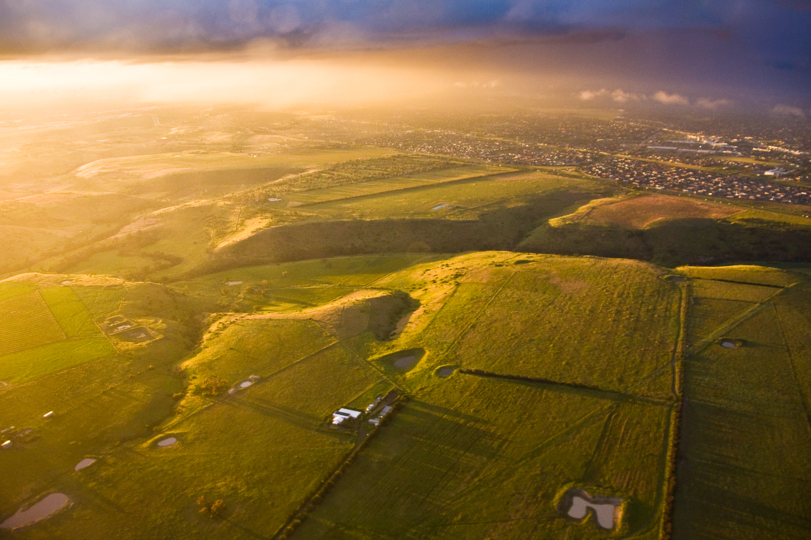 Just back from a short trip to the New Zealand north island and Melbourne, Australia. Some nice pics of volcanos and rugged coastlines to come. But the best light came this morning (or is it yesterday morning? ;) as we left the tarmac at Melbourne.